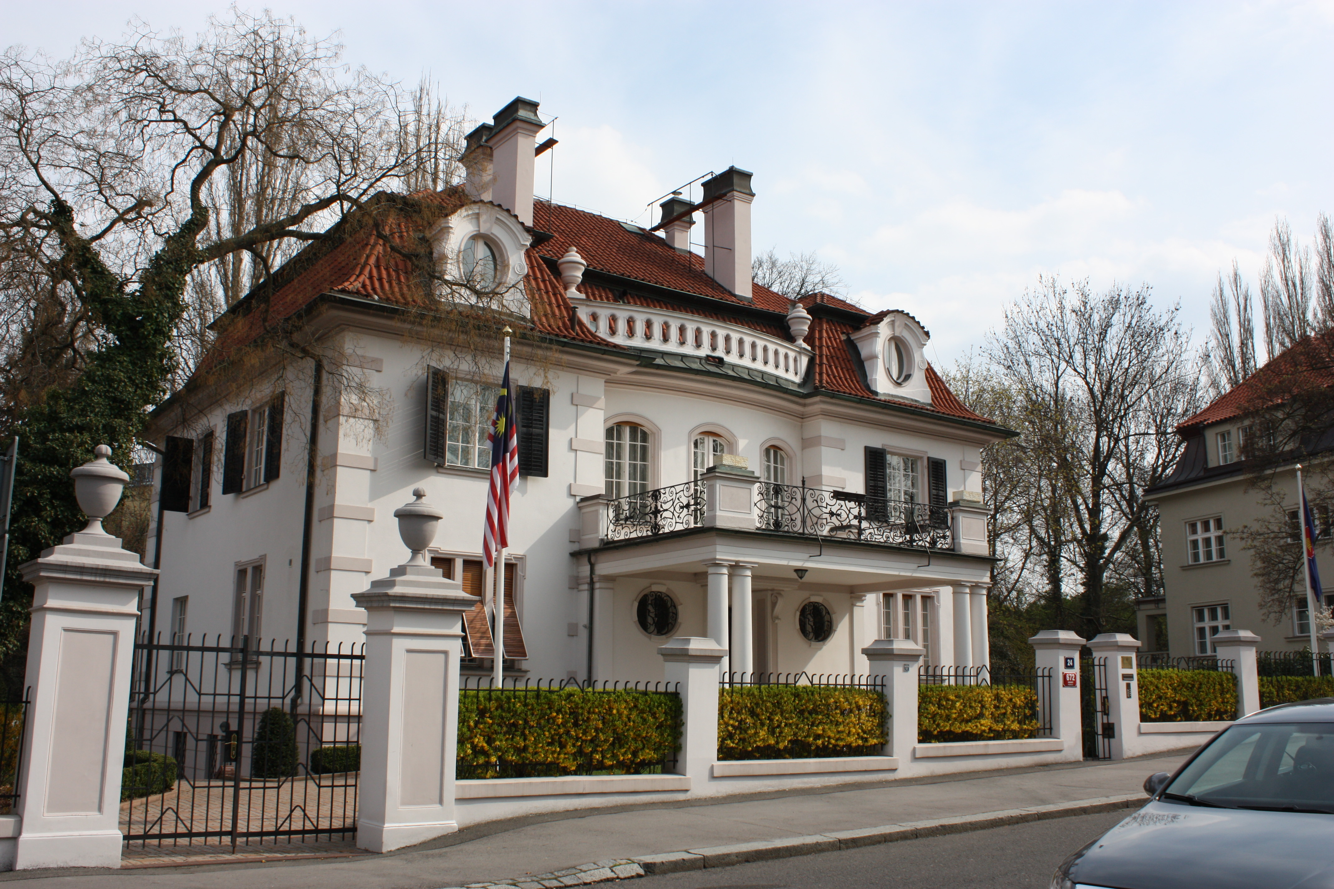 Residence of the Embassy of Malaysia in Prague - Bubeneč, Czechia